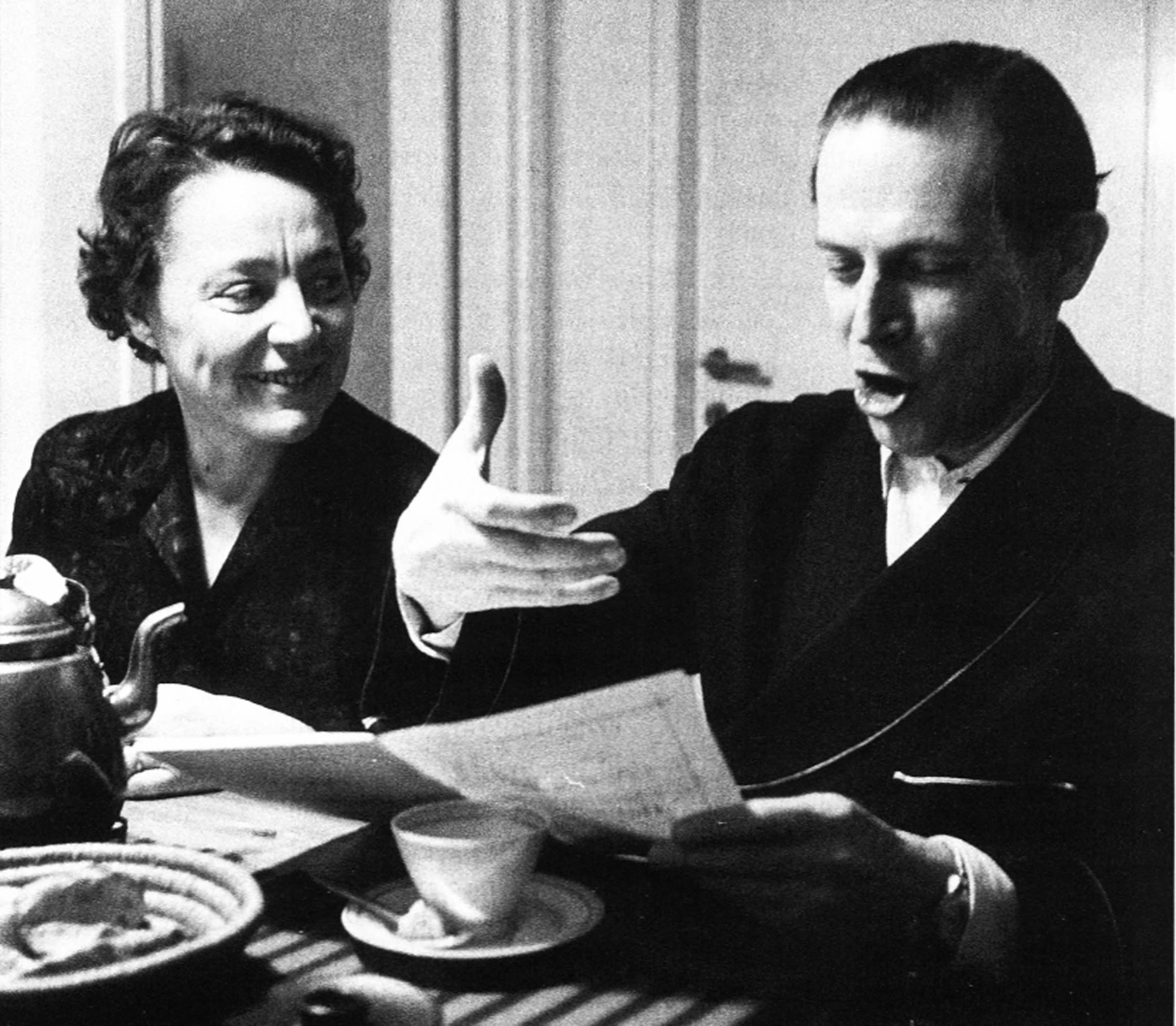 Photograph of the Finnish composer Erik Bergman (1911–2006) and his wife, the author Solveig von Schoultz (1907–1996).